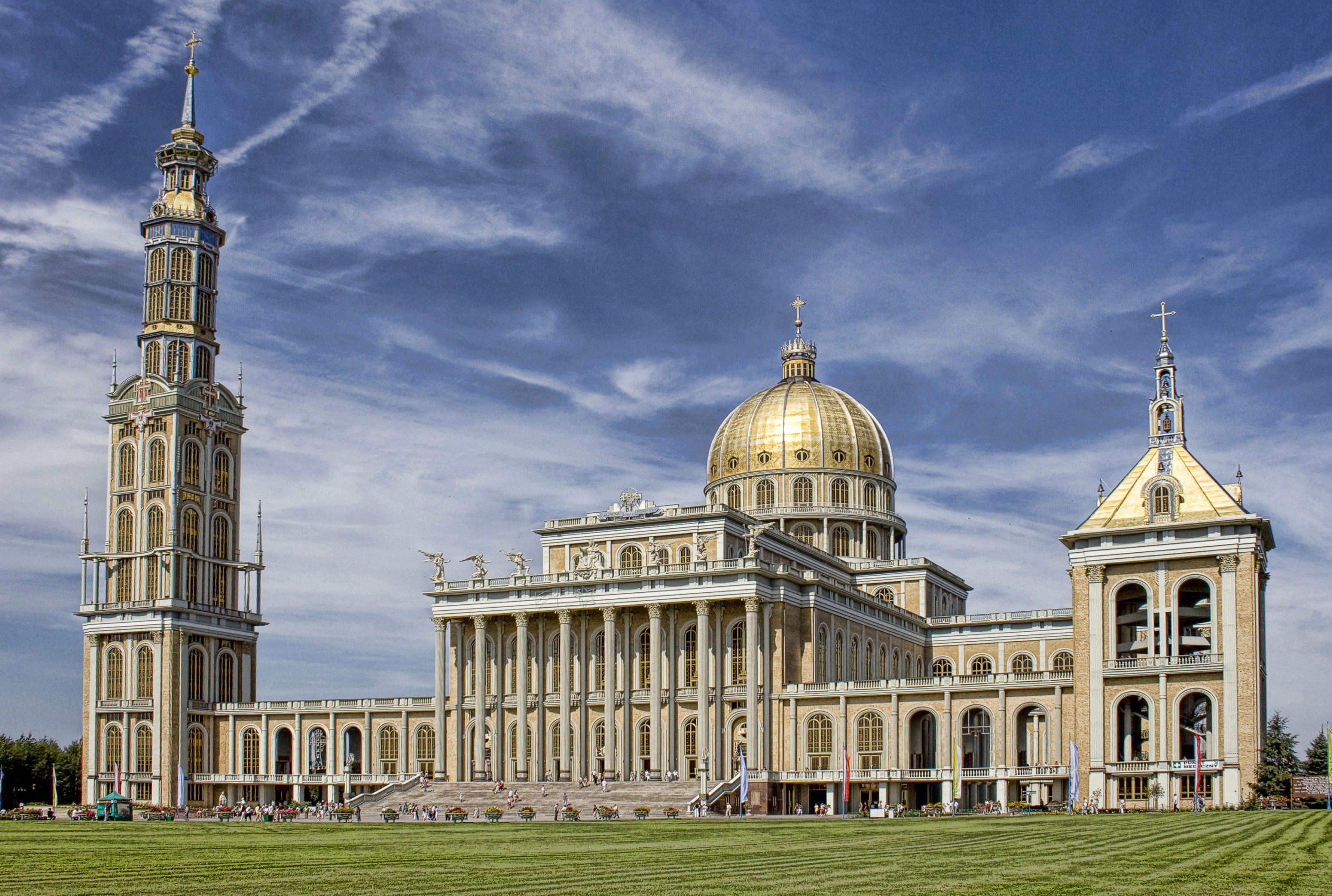 Basilica in Licheń Stary - the largest church in Poland. This version has been cropped from original, to suit a particular article.